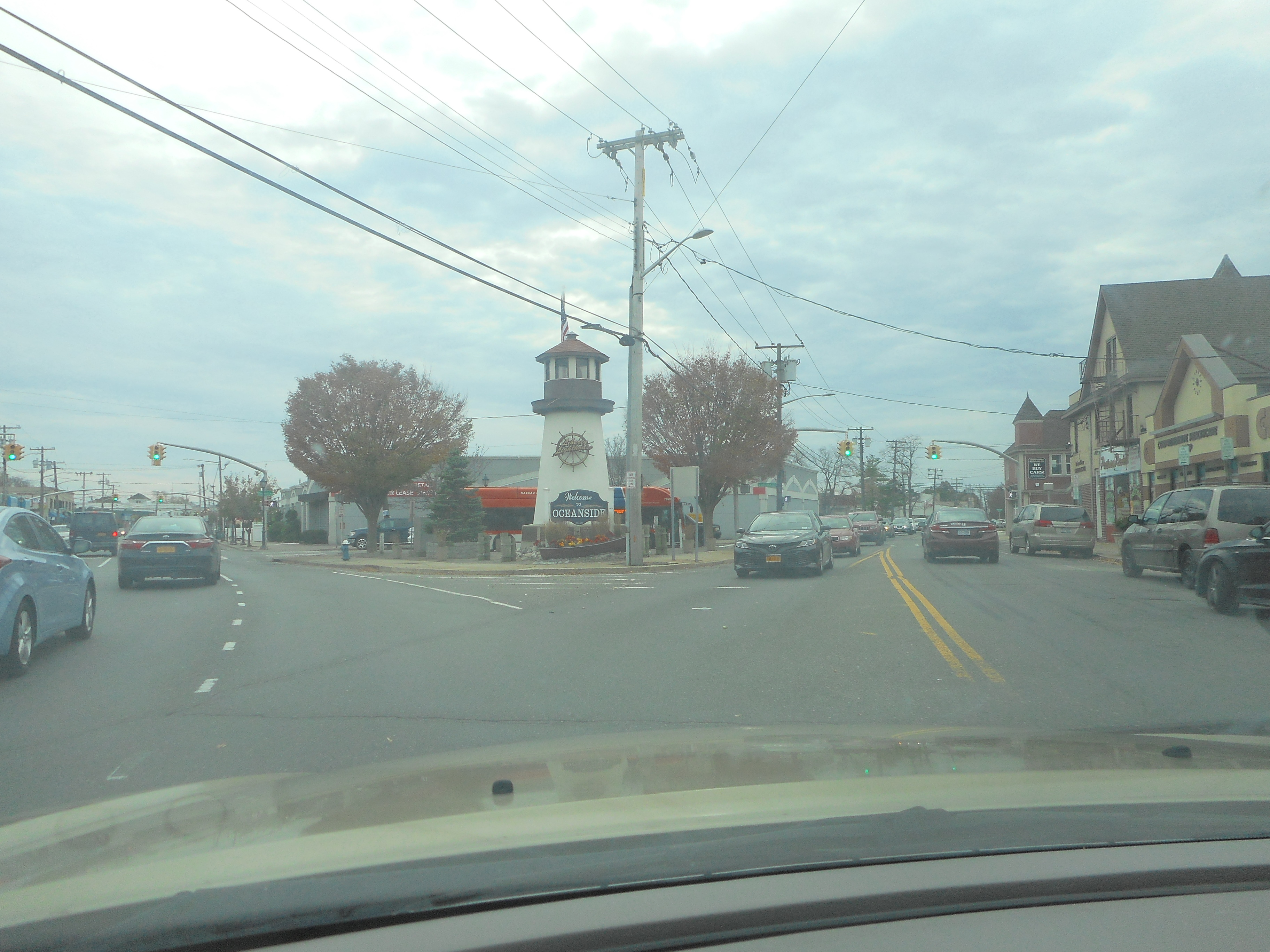 The Oceanside Liberty Lighthouse, a decorative lighthouse at the Veterans Triangle of Long Beach Road (left), Lower Liberty Avenue (right), and Davison Avenue (behind) in Oceanside, New York.